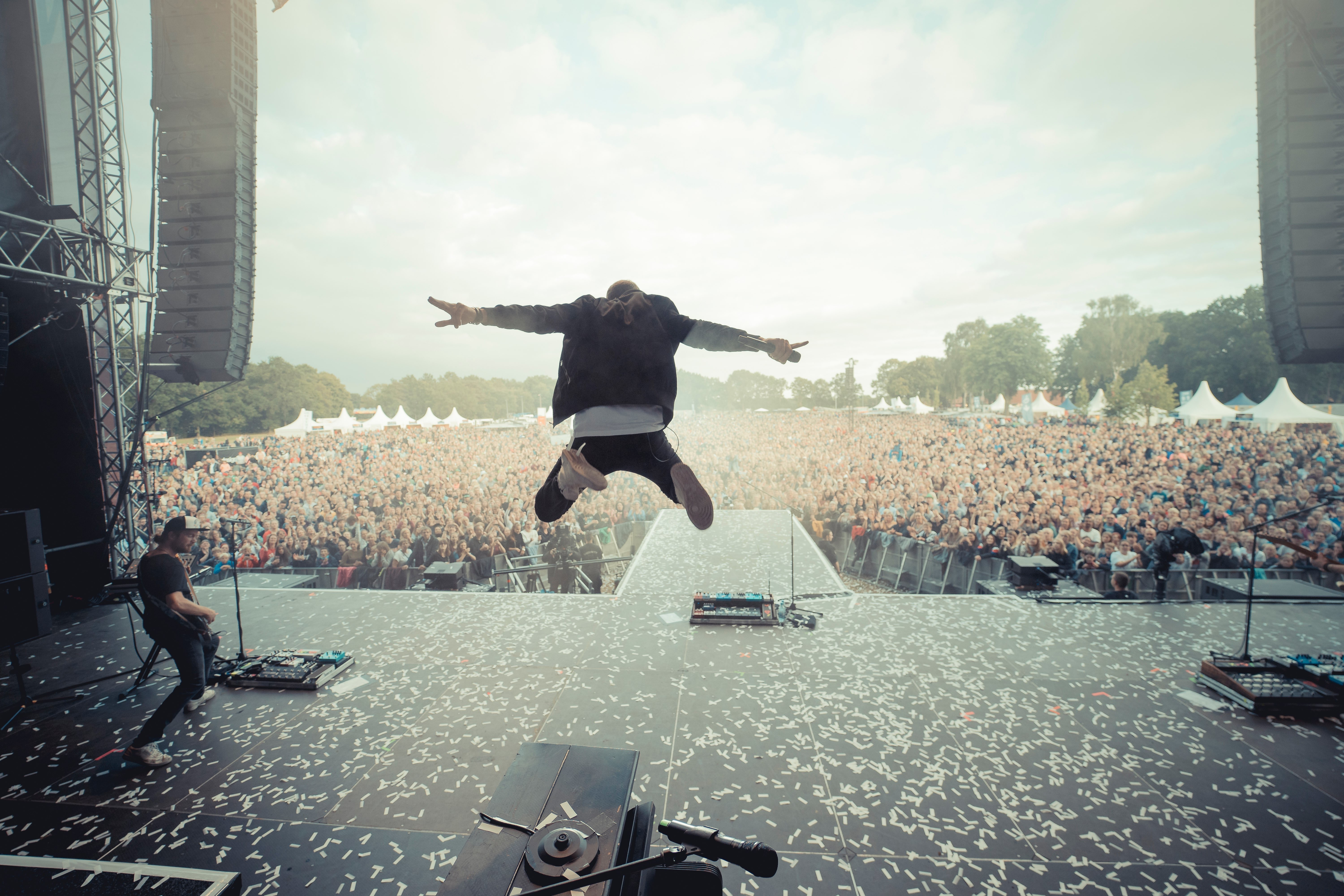 Joris foto from act in Vechta